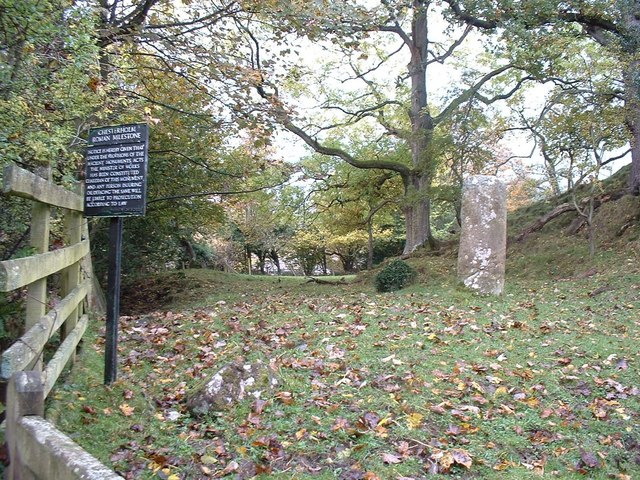 The Unique Roman Milestone? This mile post beside Stanegate below Vindolanda is said to be the only one in Britain still in its original position. It hasn't moved since an earlier image on Geograph from 1977!